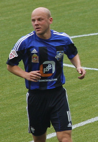 Denis Boyarintsev